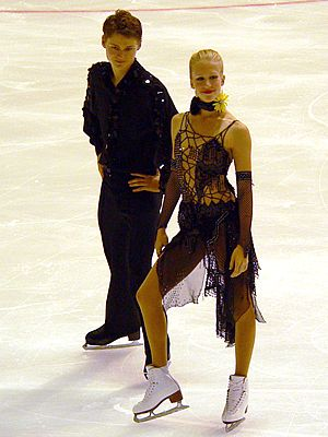 Kaitlyn Weaver and Charles Clavey during their original dance at the 2005 Junior Grand Prix event in Croatia